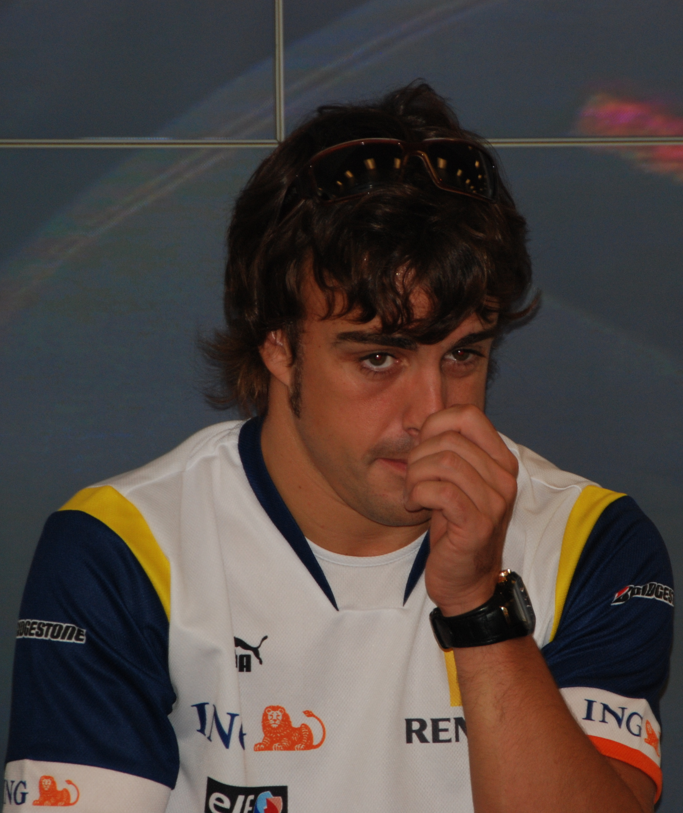 Fernando Alonso at 2008 Chinese Grand Prix